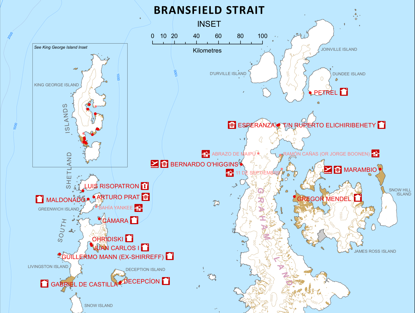 Research stations in the area of Bransfield Strait, the tip of Antarctic Peninsula and South Shetland Islands